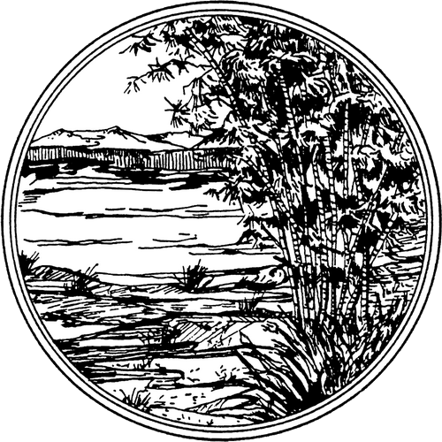 Provincial seal of Nong Khai province.